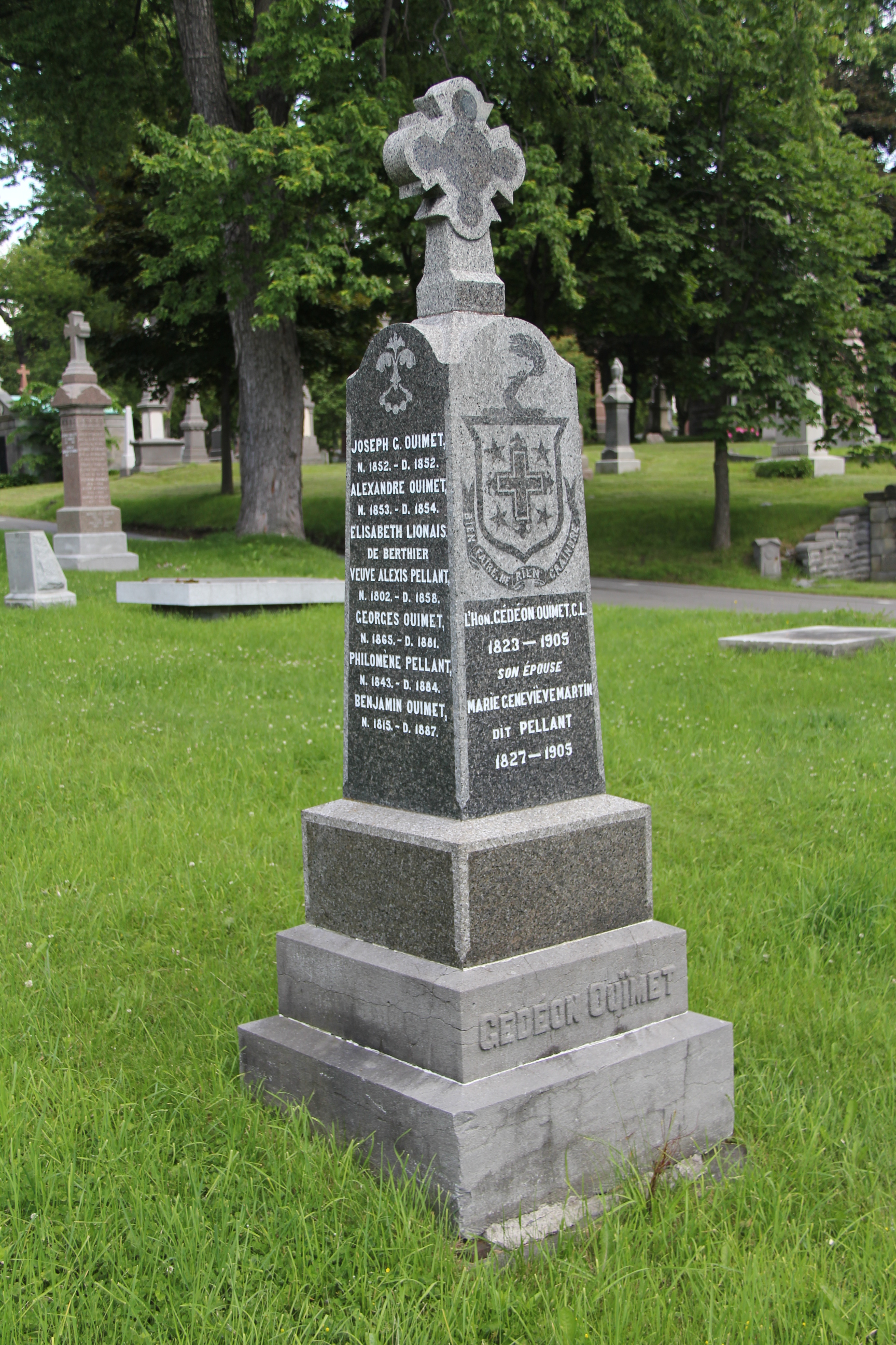 Gédéon Ouimet's tombstone, Notre-Dame-des-Neiges Cemetery (B22), Montreal. Quebec's Premier (1873 - 1874).